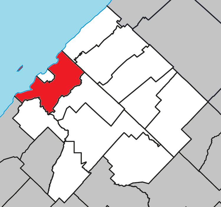 Location of Notre-Dame-des-Neiges, Quebec within Les Basques Regional County Municipality.